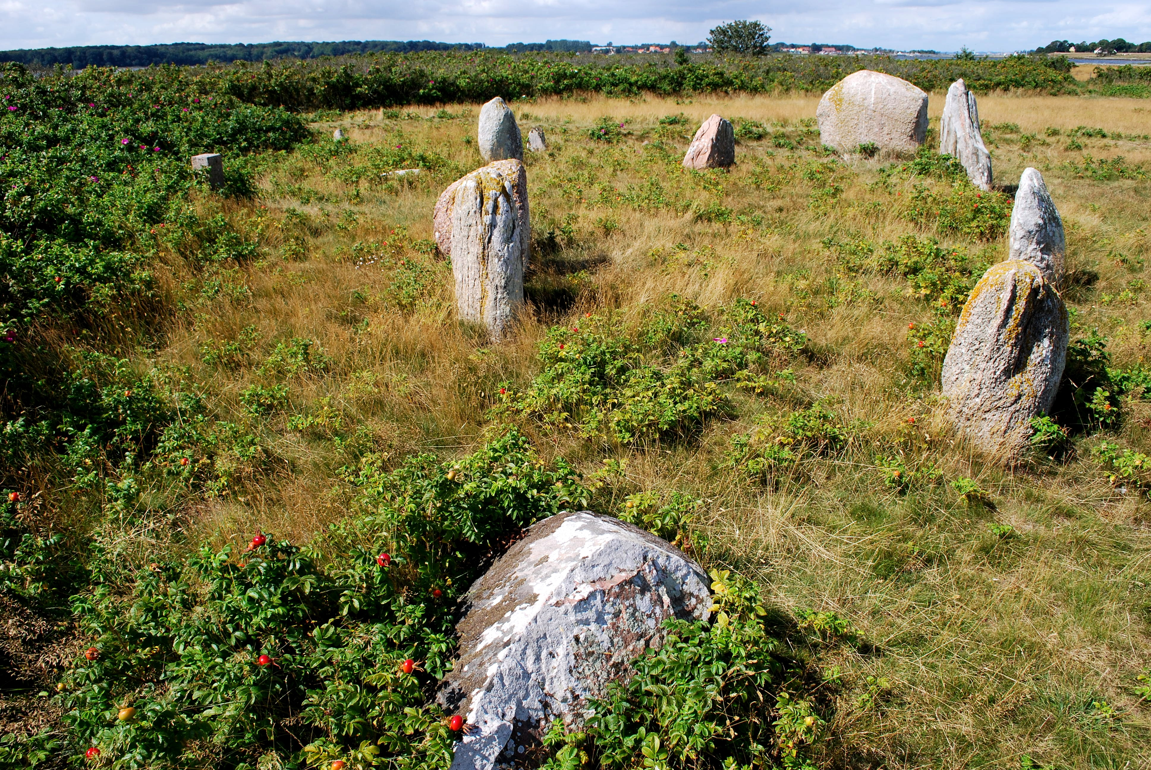 Stone ship from the wikinng age on Island of Hjarnø, Denmark